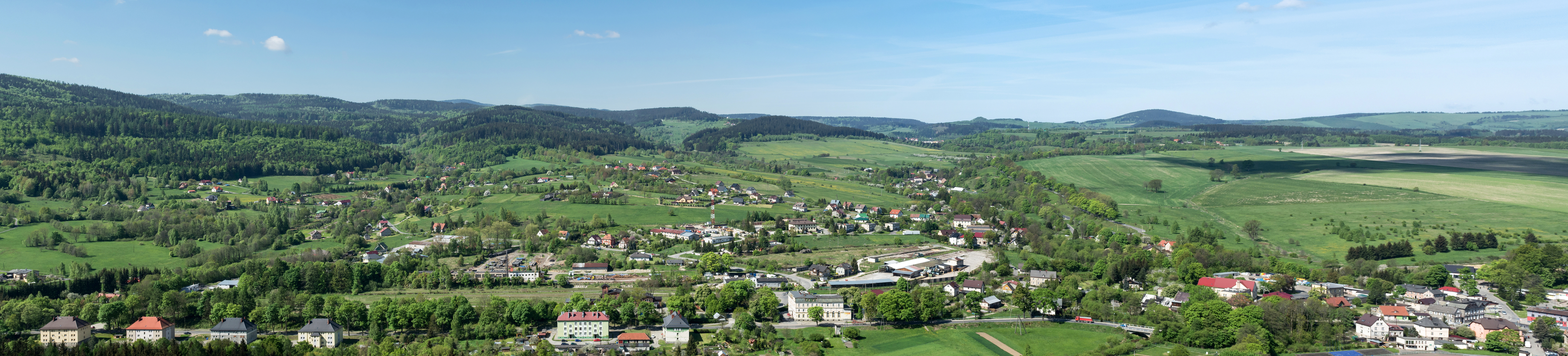 View of Szczytna and Góry Stołowe from Szczytnik